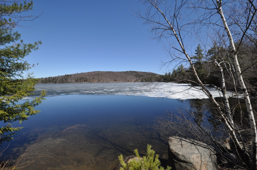 Dublin Lake, Dublin, New Hampshire in April; Beech Hill is in the background.